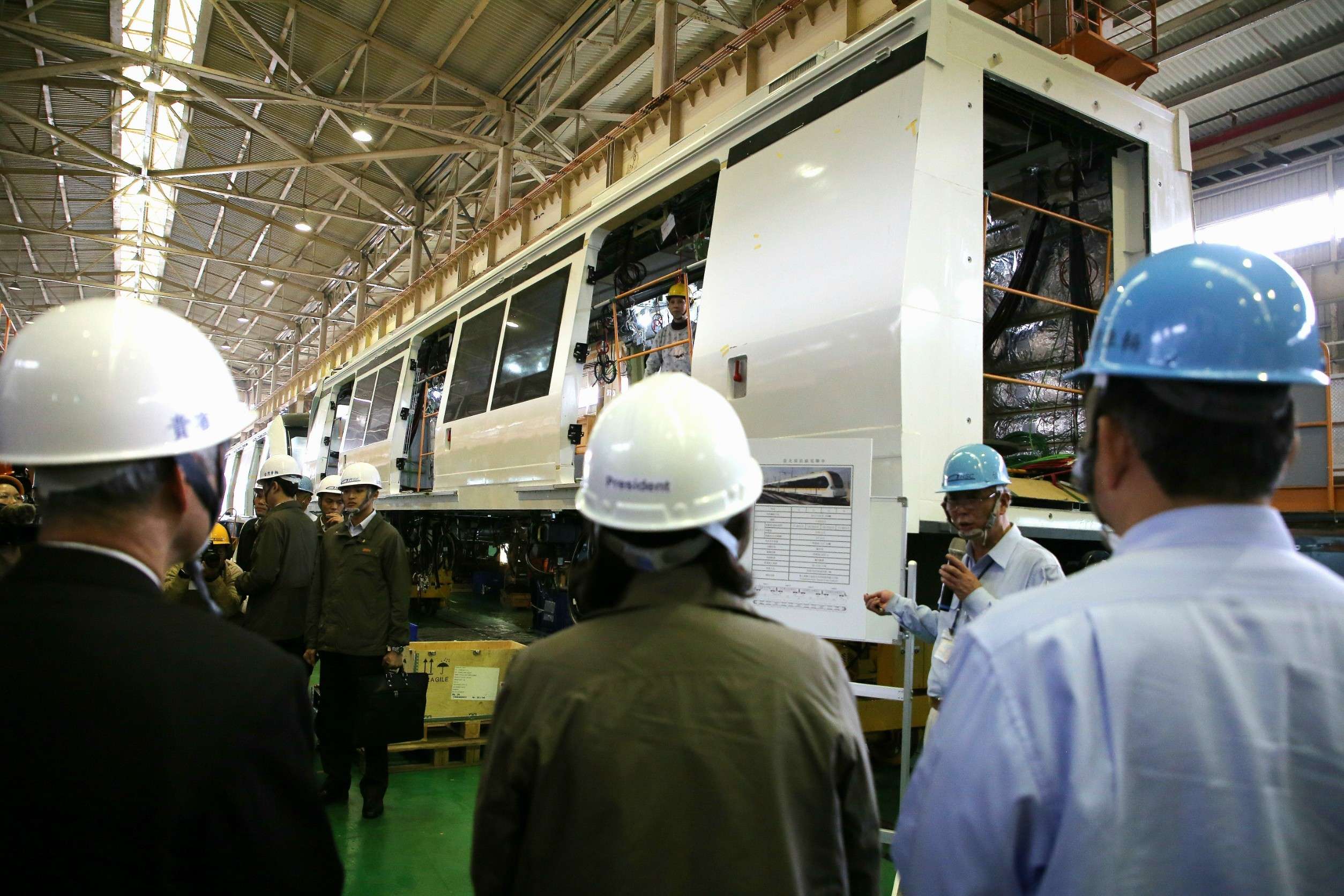 授權方式及範圍：中華民國總統府│政府網站資料開放宣告 Authorization Method & Scope: Office of the President, Republic of China (Taiwan) | Government Website Open Information Announcement